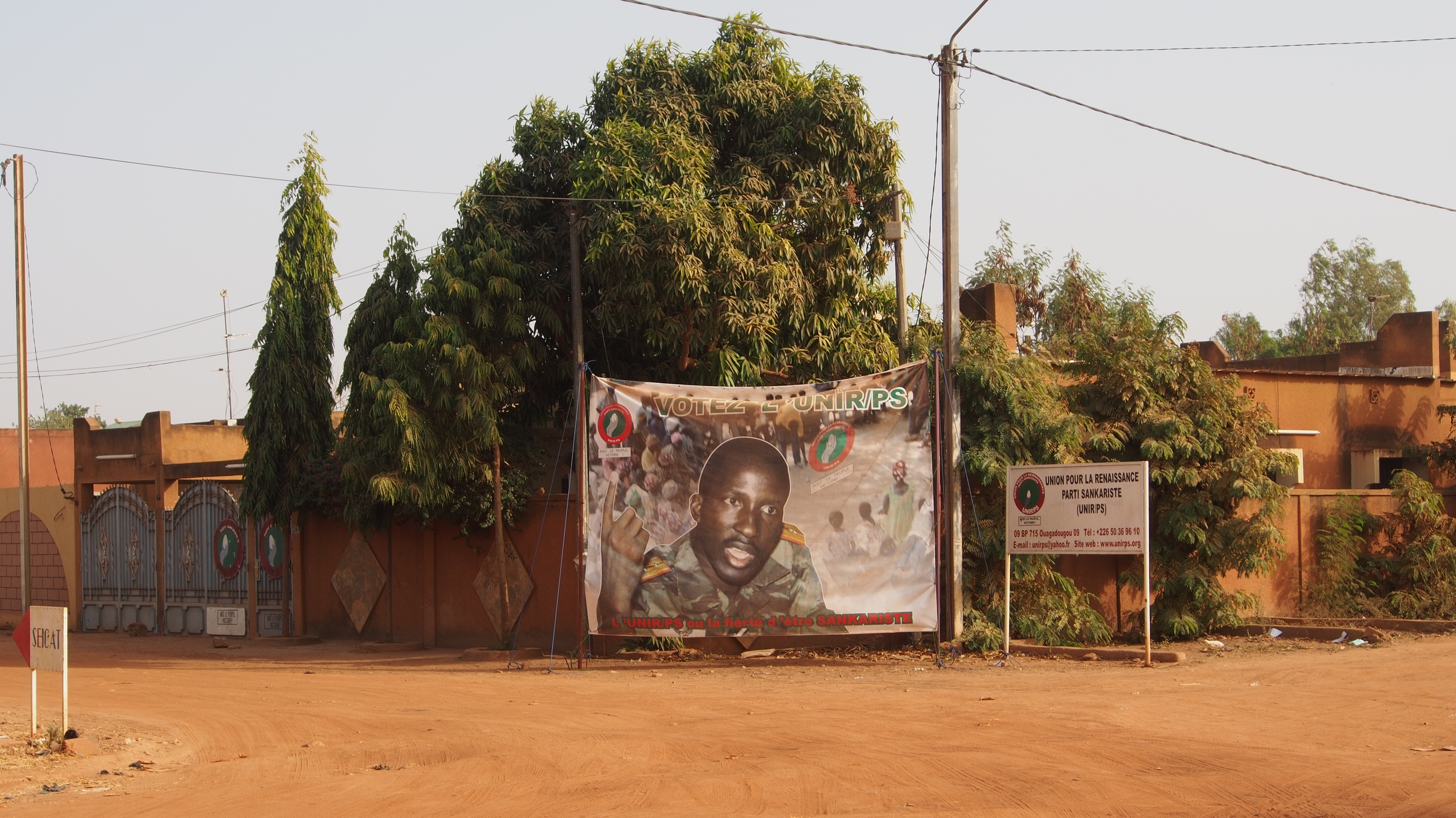 Party headquarters of the sankarist UNIR/PS im Quartier 1200 Logements in Ouagadougou, Burkina Faso